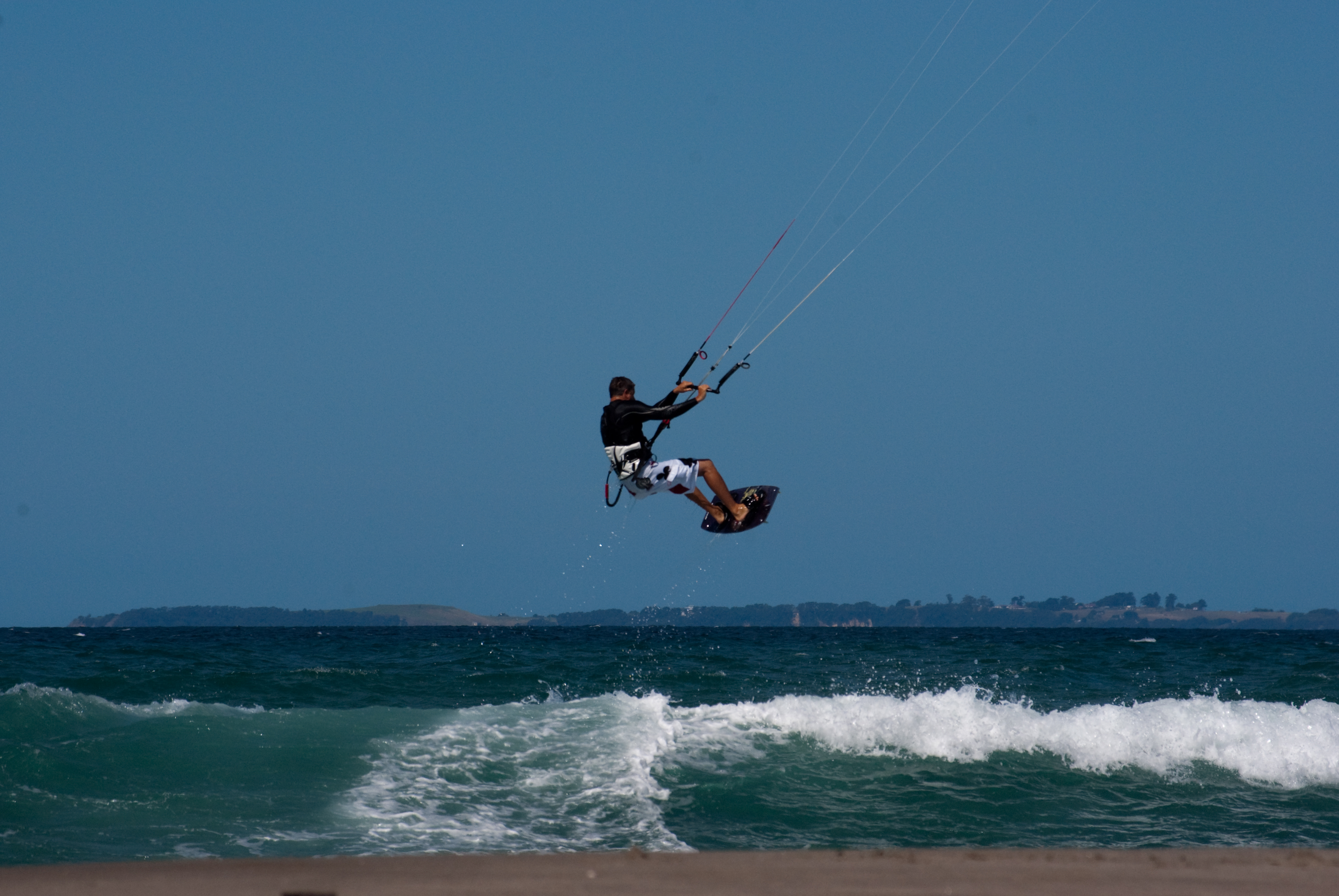 Powerkiter at Papamoa Beach, New Zealand